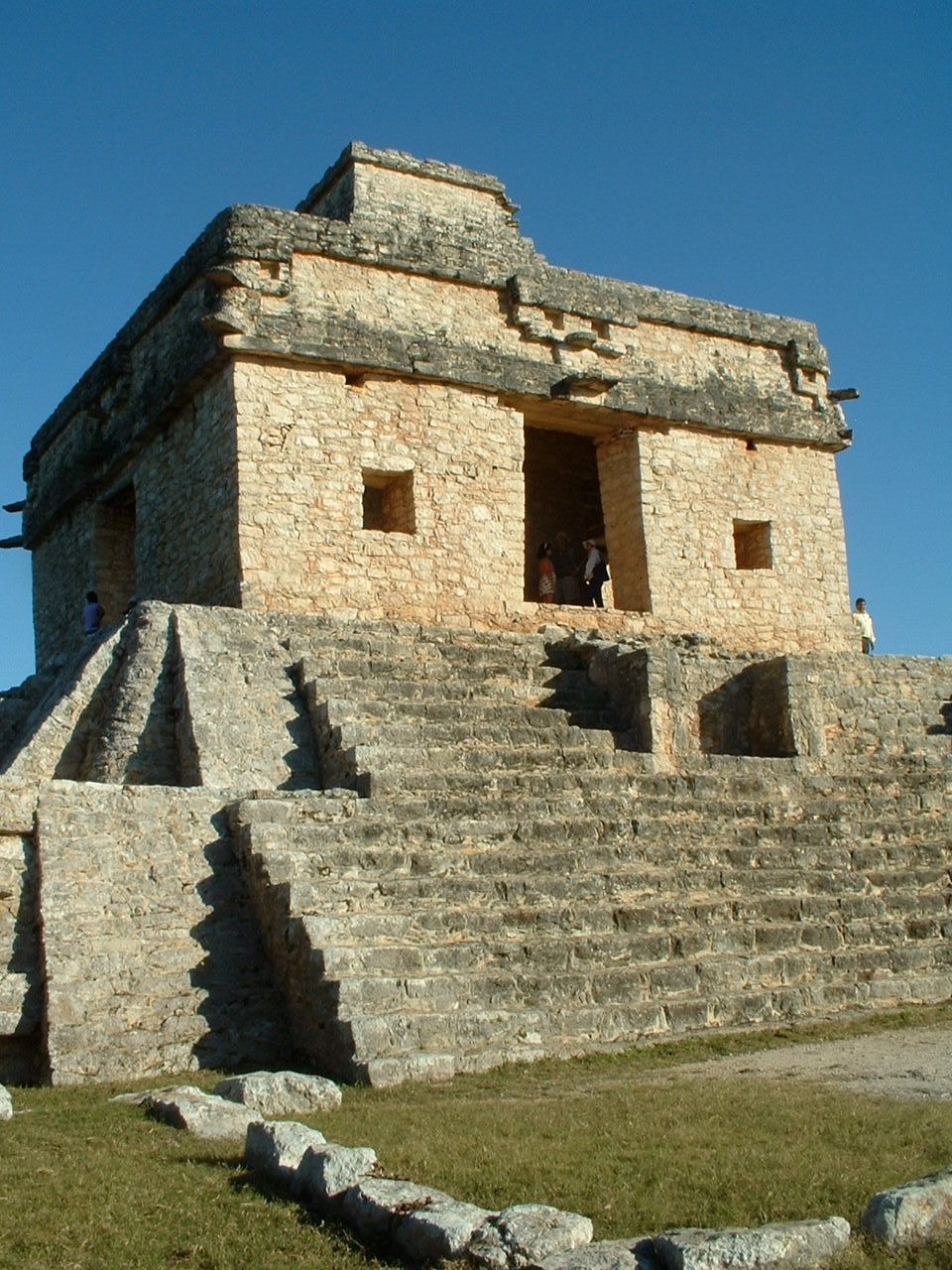 Temple of the Seven Dolls, Dzibilchaltun, Yucatan, Mexico